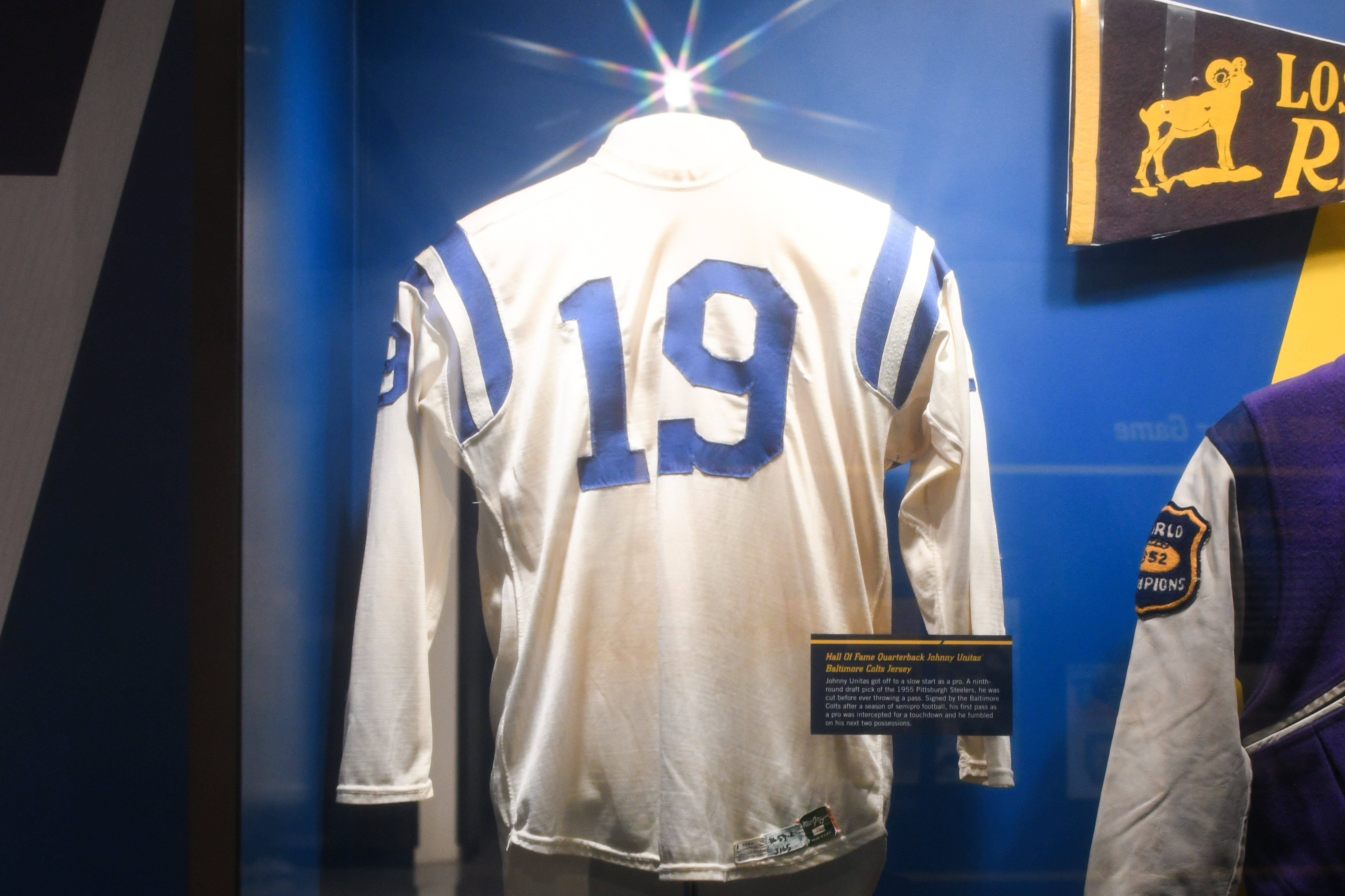 Johnny Unitas uniform (Baltimore Colts) exhibited at the Pro Football Hall of Fame.